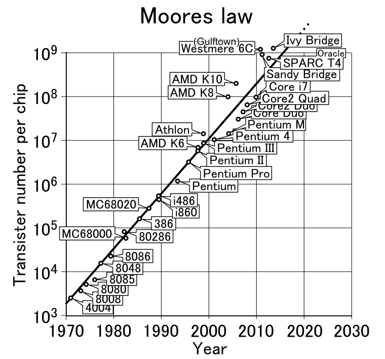 Moores'law (Major CPU'S 1970-2011 Transister number's trend chart)